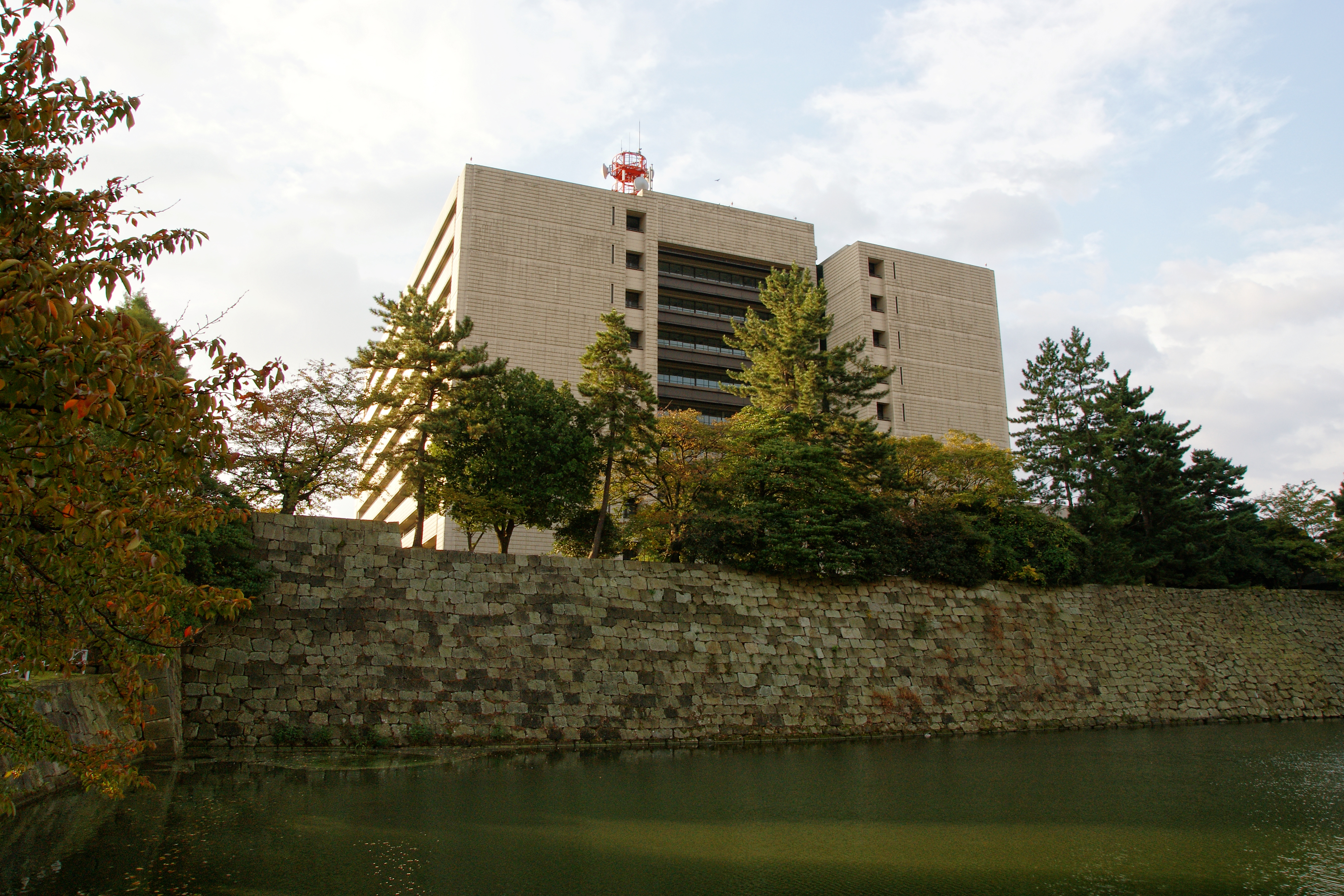 Fukui Prefectural Government Headquarters, Fukui, Fukui prefecture, Japan